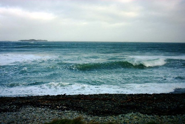 Waves at the Wee House of Malin